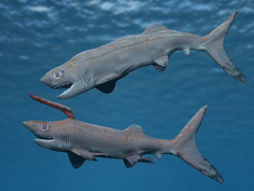 Falcatus